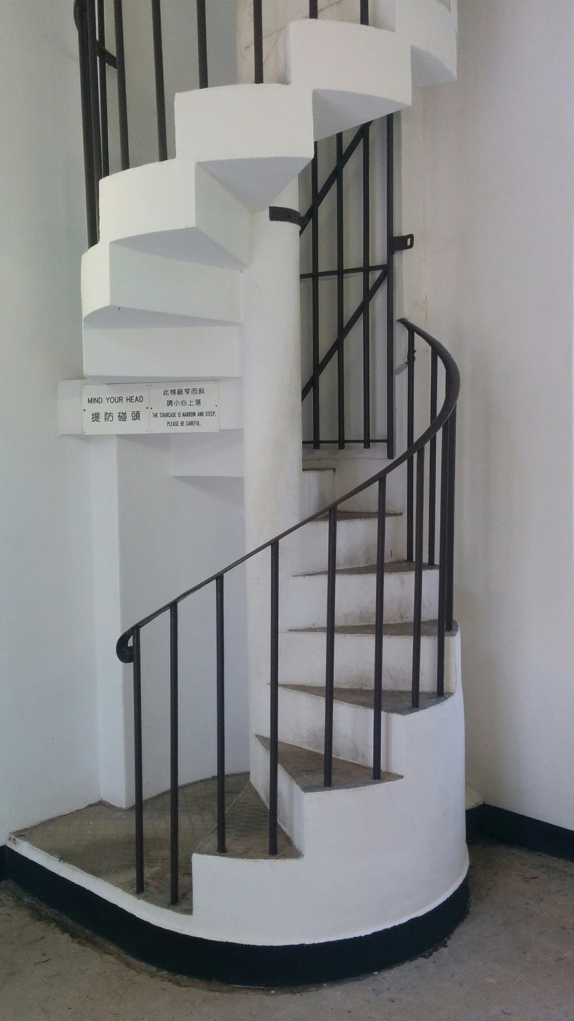 Signal Hill Tower Staircase